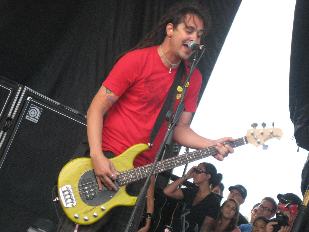 Roger Manganelli performing in Carson, California on the Van's Warped Tour on August 23, 2009.